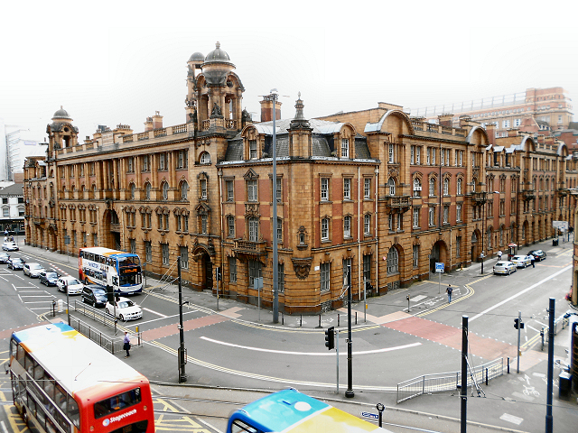 London Road Station in Manchester, England - September 2012